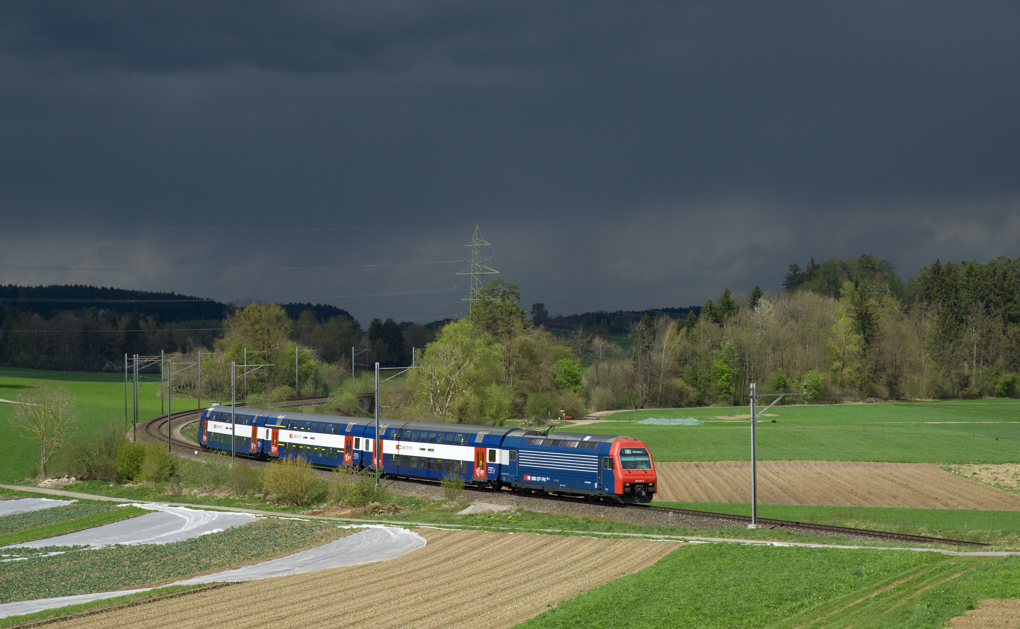 S3 service of the Zurich S-Bahn between Illnau and Fehraltorf. The train is a very typical double decker push-pull train, hauled by an Re 450 locomotive.